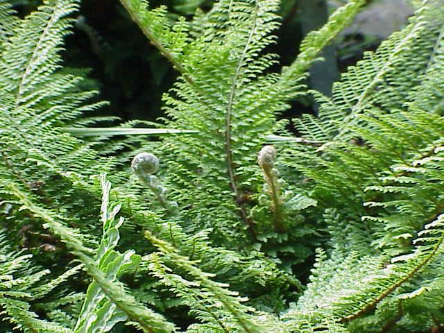 Species: Polystichum setiferum Family: Aspidiaceae Image No. 2